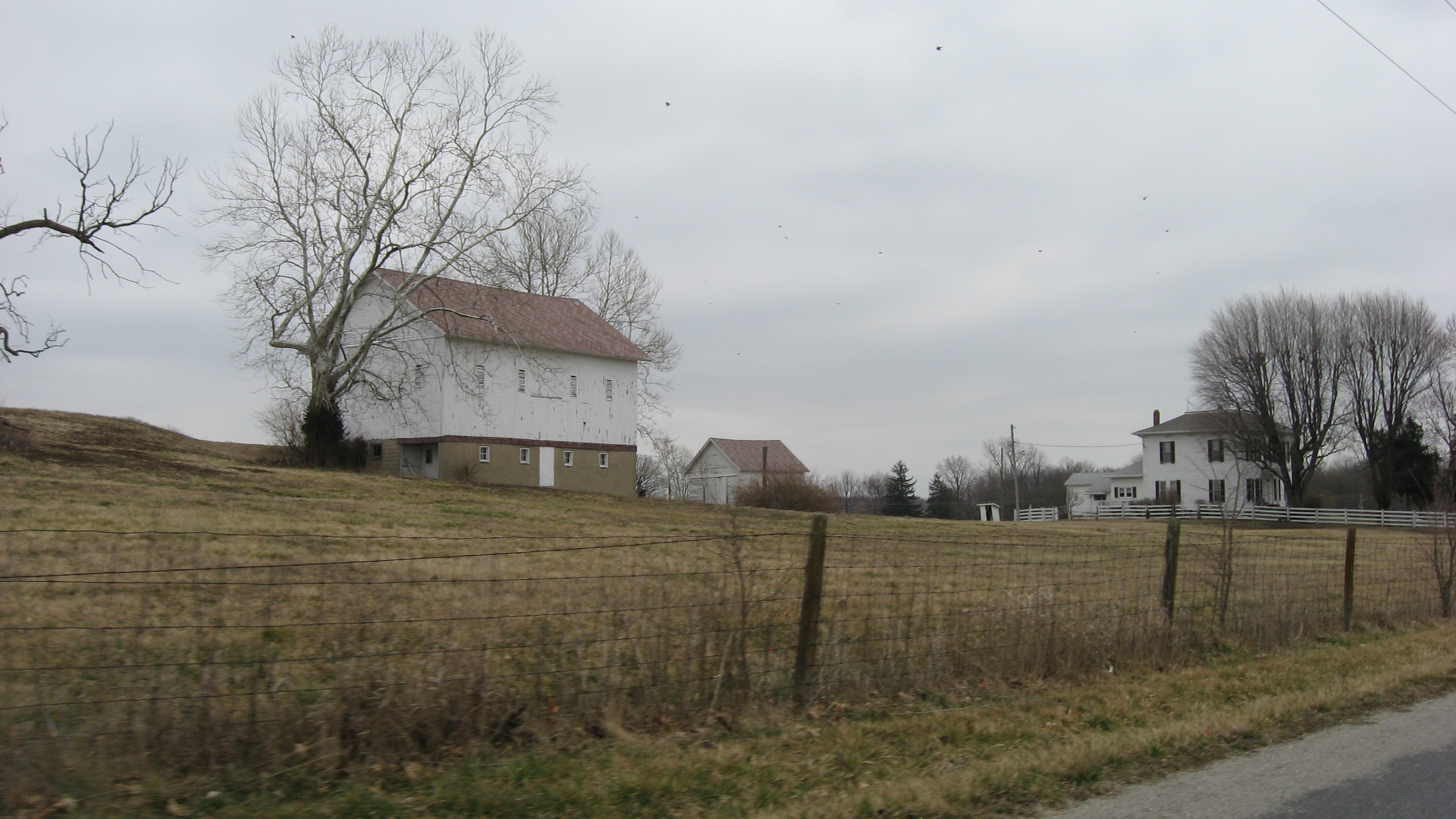 Buildings at the Pryor Brock Farmstead, located at 8602 E500S northwest of Zionsville in Eagle Township, Boone County, Indiana, United States. Built in 1878, the farmstead is listed on the National Register of Historic Places.